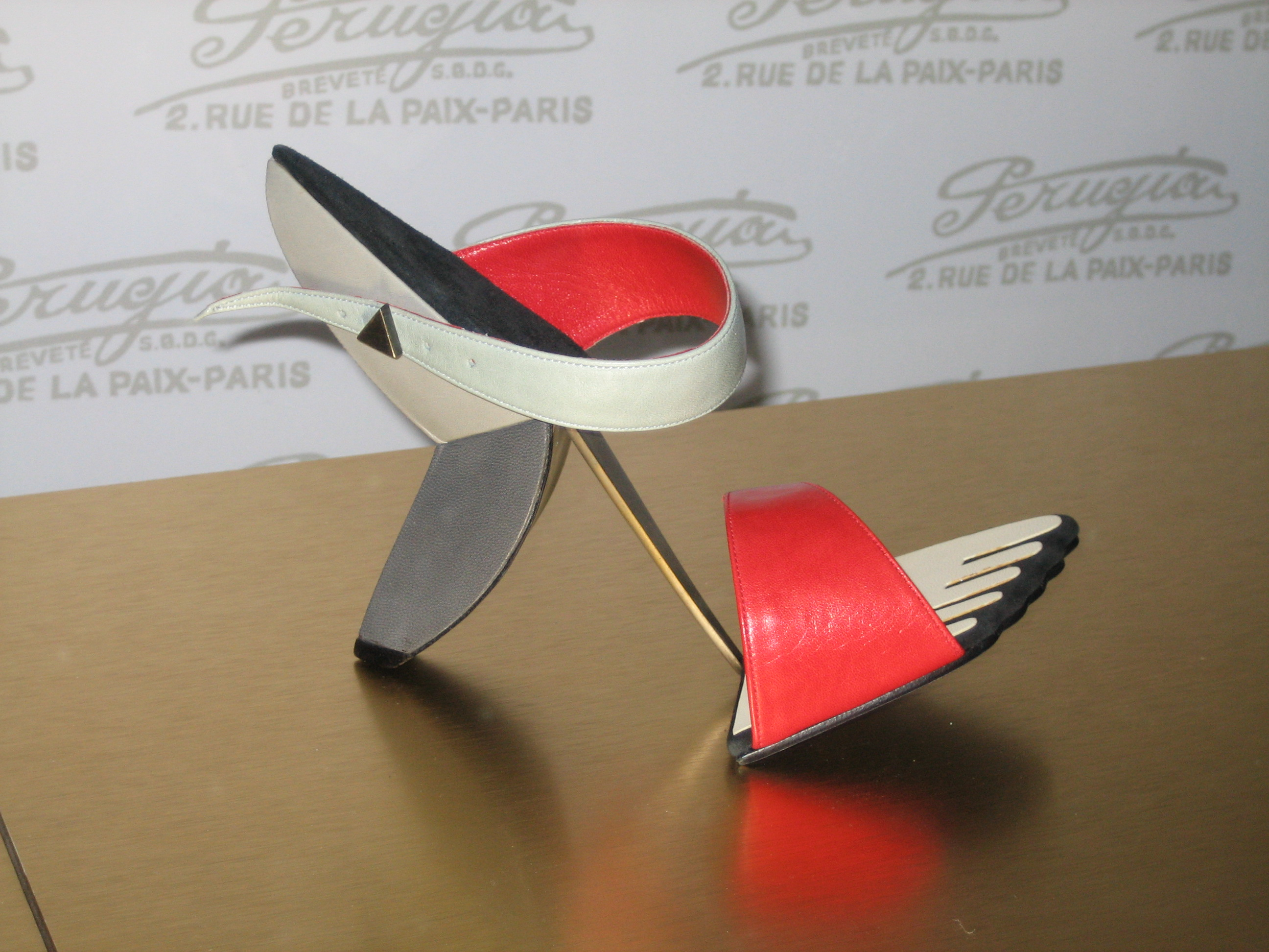 Shoe by Andre Perugia